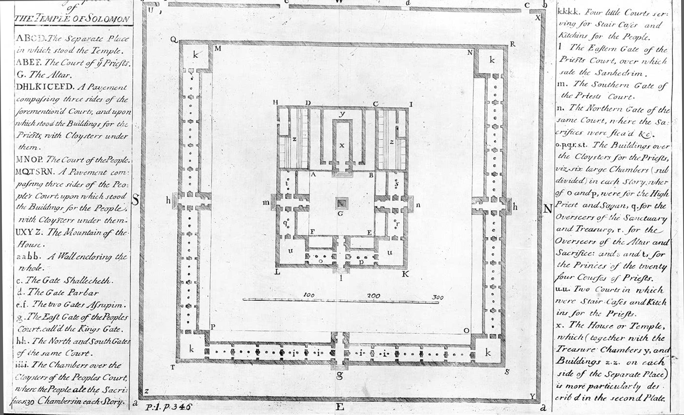 Newton, Isaac, Sir, 1642-1727 The chronology of ancient kingdoms amended : to which is prefix'd, a short chronicle from the first memory of things in Europe, to the conquest of Persia by Alexander the Great: with three plates of the temple of Solomon / by Sir Isaac Newton. Dublin : Printed for G. Risk [etc.] Image is of plate #1